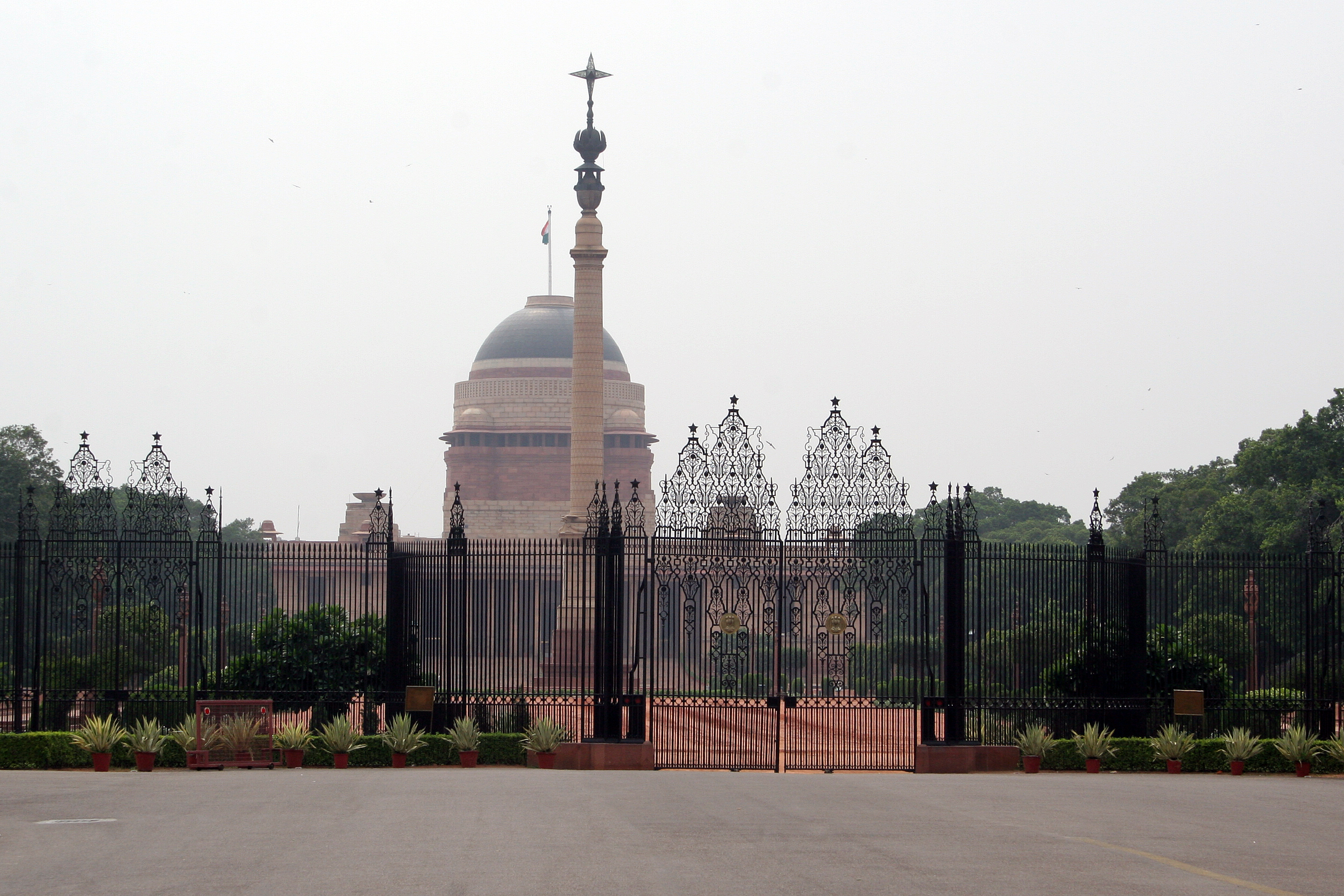 Rashtrapati Bhavan, the presidential palace in New Delhi, India.